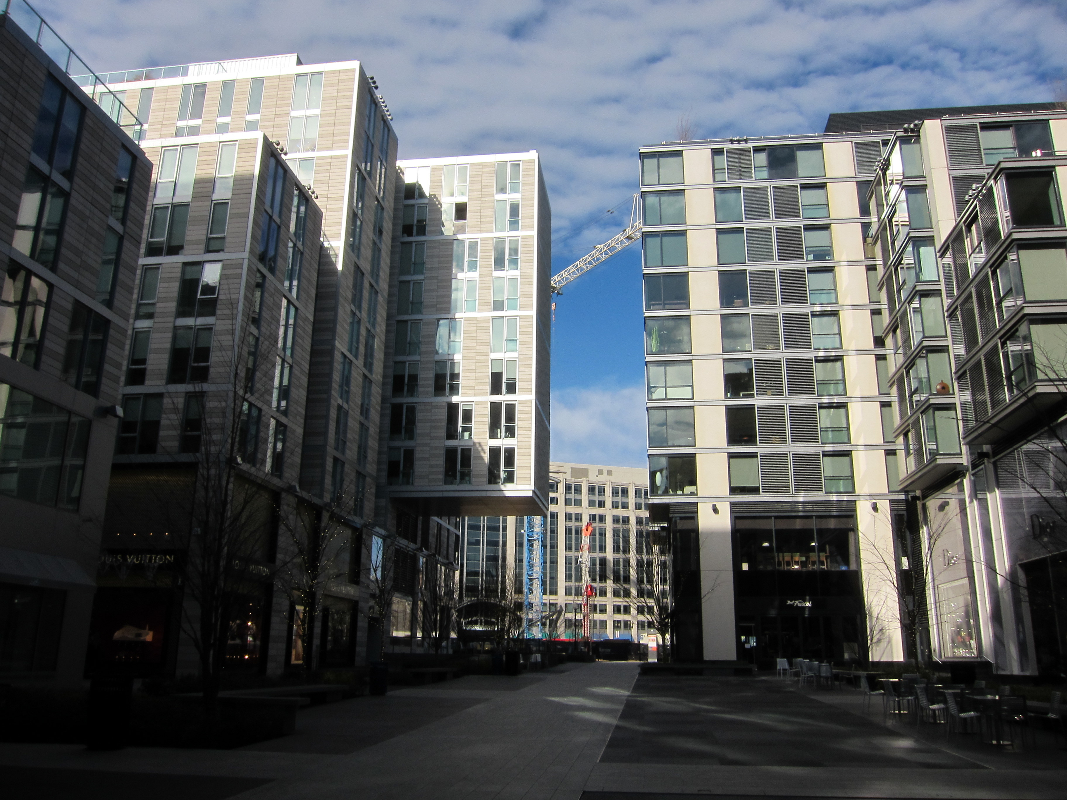 The CityCenterDC plaza in Washington, D.C. The building on the left is The Apartments at CityCenter - North Building (designed by Shalom Baranes Associates) at 875 10th Street NW and on the right is The Residences at CityCenter - North Building (designed by Foster + Partners) at 870 9th Street NW.